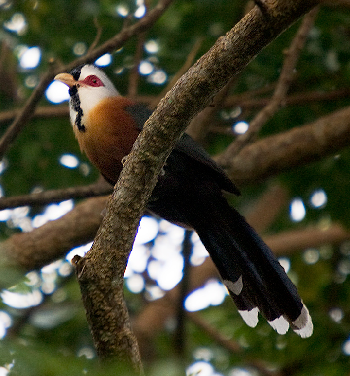 Scale-feather Malkoha (Dasylophus cumingi)